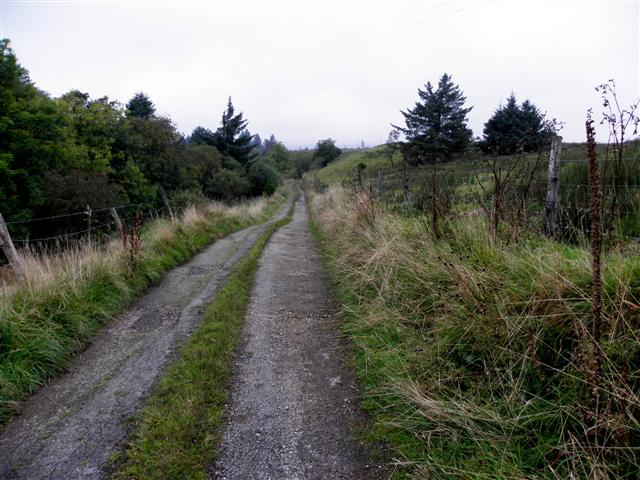 Rough road at Tullyveela